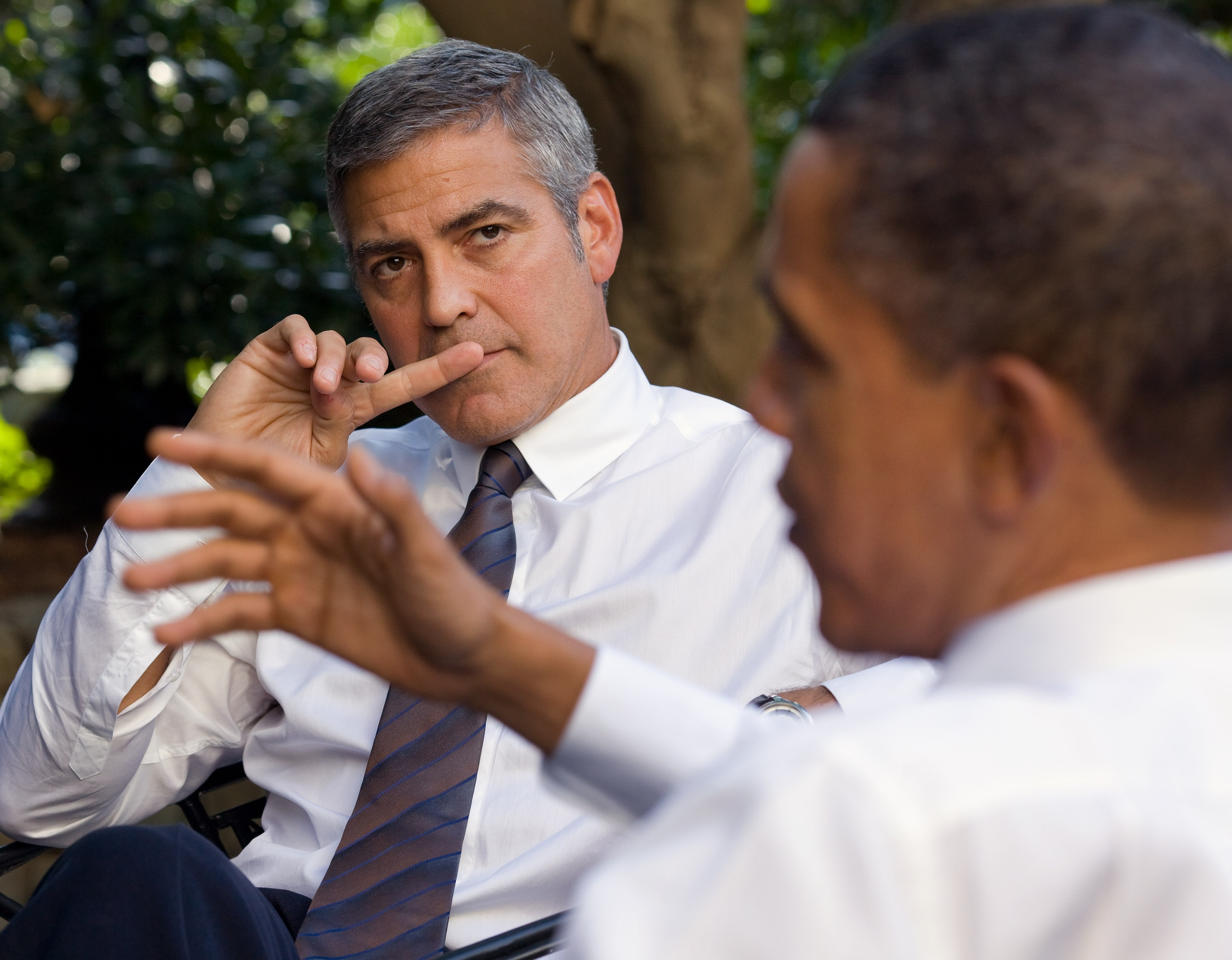 President Barack Obama discusses the situation in Sudan with actor George Clooney during a meeting outside the Oval Office, Oct. 12, 2010.